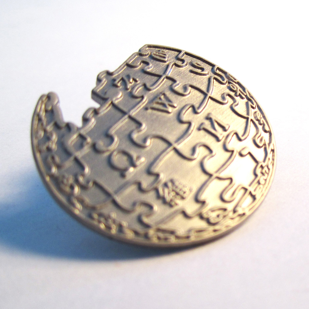 Picture of the wikipedia globe pins for sale on Wikimedia Shop